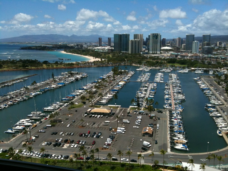 Ala wai yacht harbour, Honolulu Hawai`i